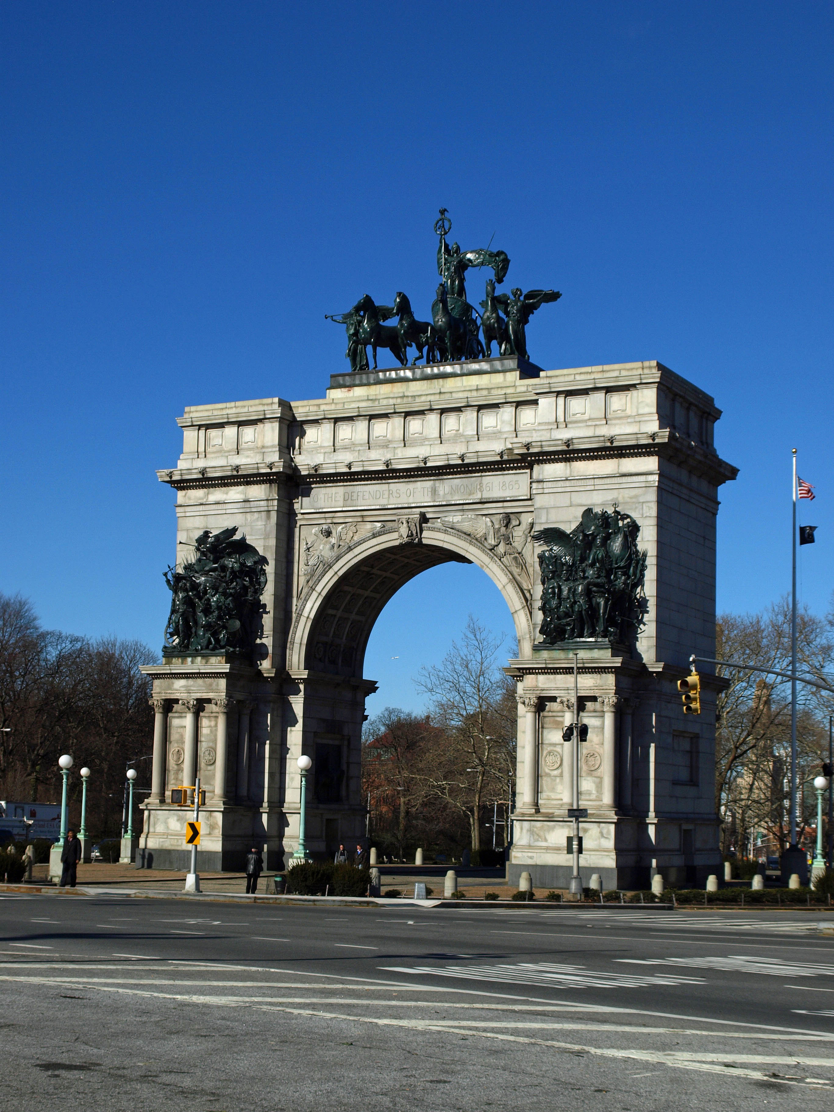 The Grand Army Plaza Arch in Brooklyn, New York